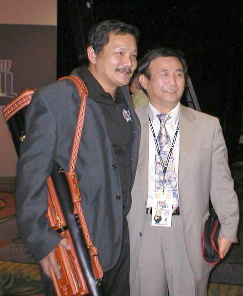 Efren Reyes. This is my personal picture that I took with my camera and may be released to public domain.